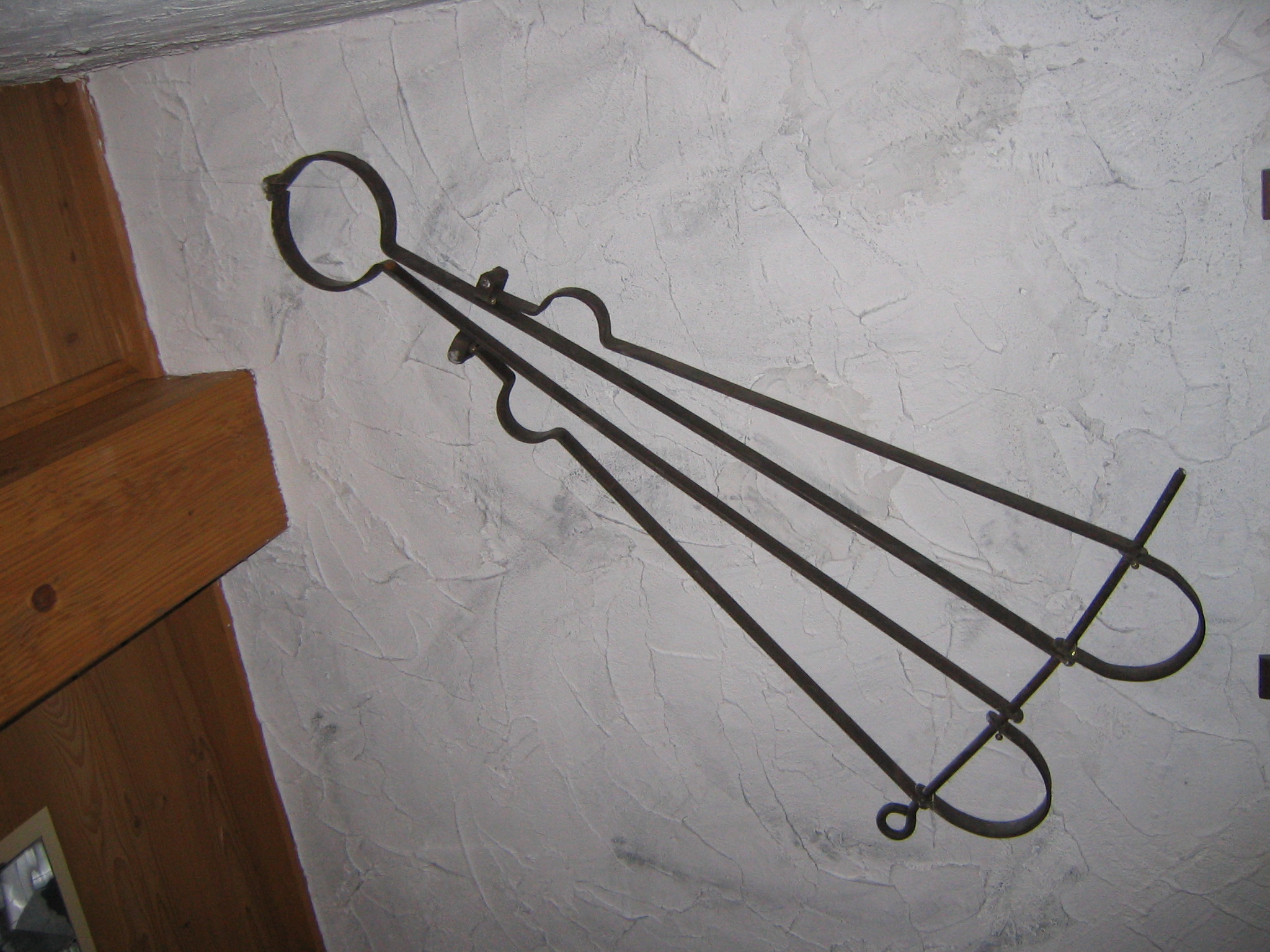 Scavenger’s daughter at the torture museum in Freiburg im Breisgau